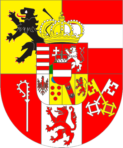 Coats of arms of the electorate of Salzburg: 1+2: prince archbishop of Salzburg; 3. prince-bishop of Eichstätt; 4. prince-bishop of Passau; 5. prince-provost of Berchtesgaden; middle: 1 Old-Hungary; 2. New-Hungary; 3: county of Tirol; 4: grand-duchy of Tuscany; 5: duchy of Lorraine; 6: county of Habsburg heart: Austria